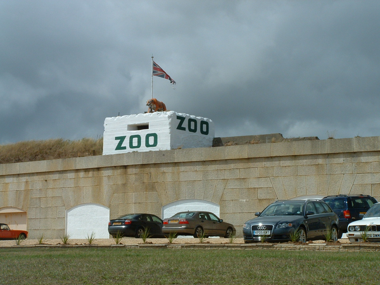 Front of the Isle of Wight Zoo.